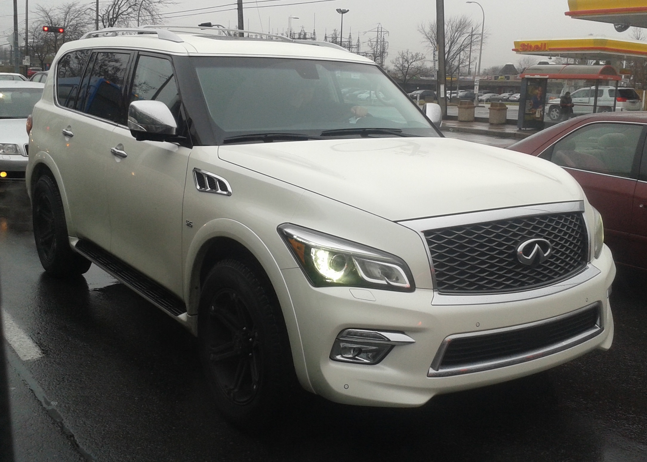 2015-présent Infiniti QX80 photographed in Dollard-Des-Ormeaux, Quebec, Canada.